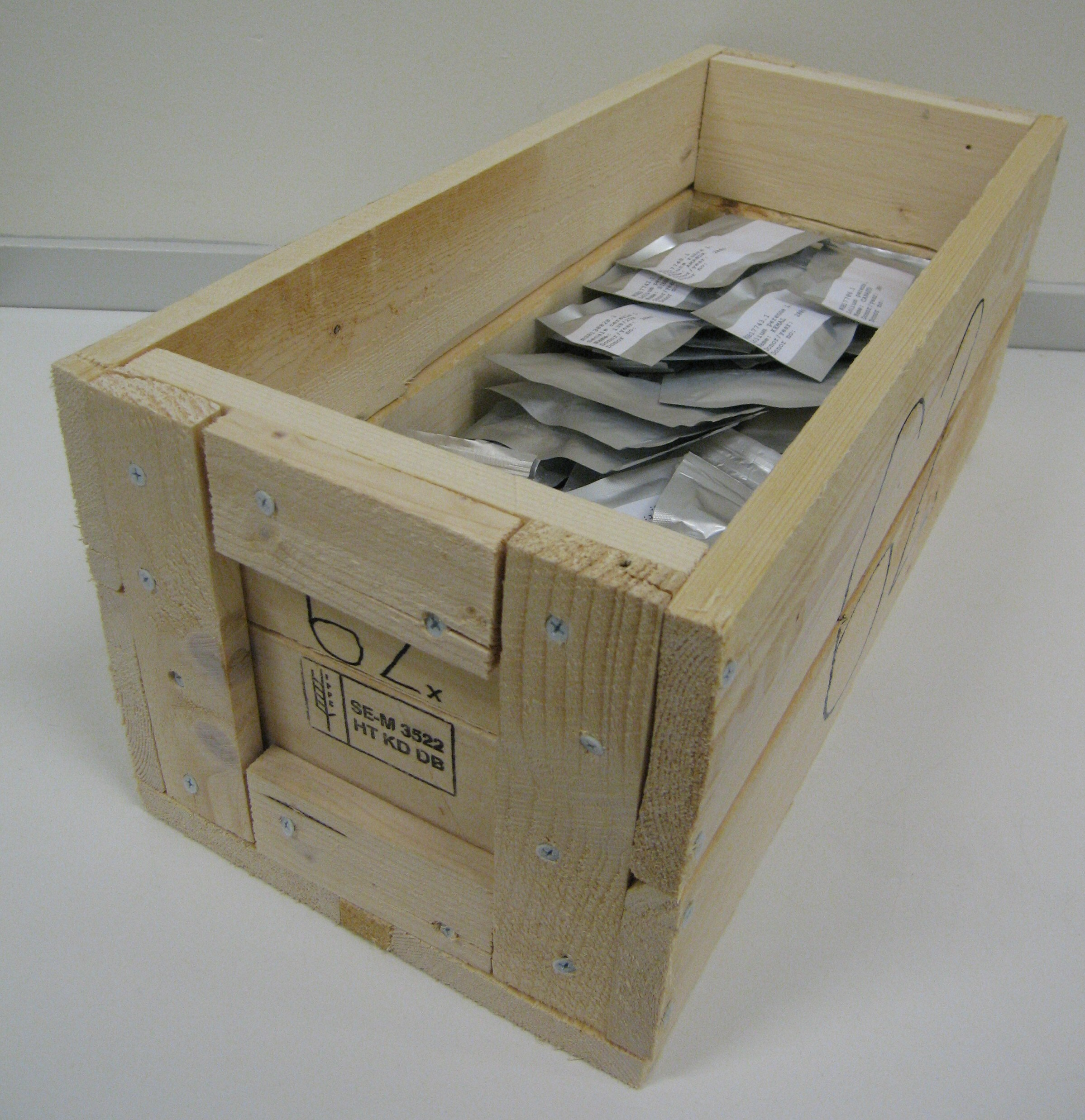 Storage box for the Nordic Gene Bank's Svalbard Global Seed Bank. While glass tubes had been used to store seeds, since 2004 they have been packed in aluminium bags. This storage box is 23.5 x 22.5 x 50.0 cm (9.25 x 8.86 x 19.69 in; height x width x length).